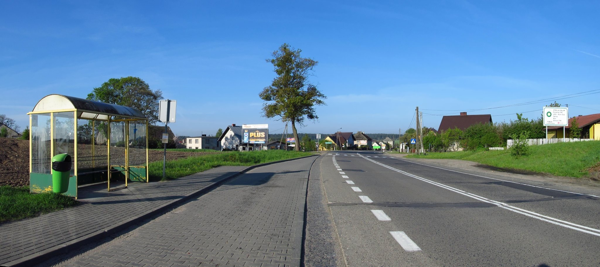 PPM - Piece Panorama Morning